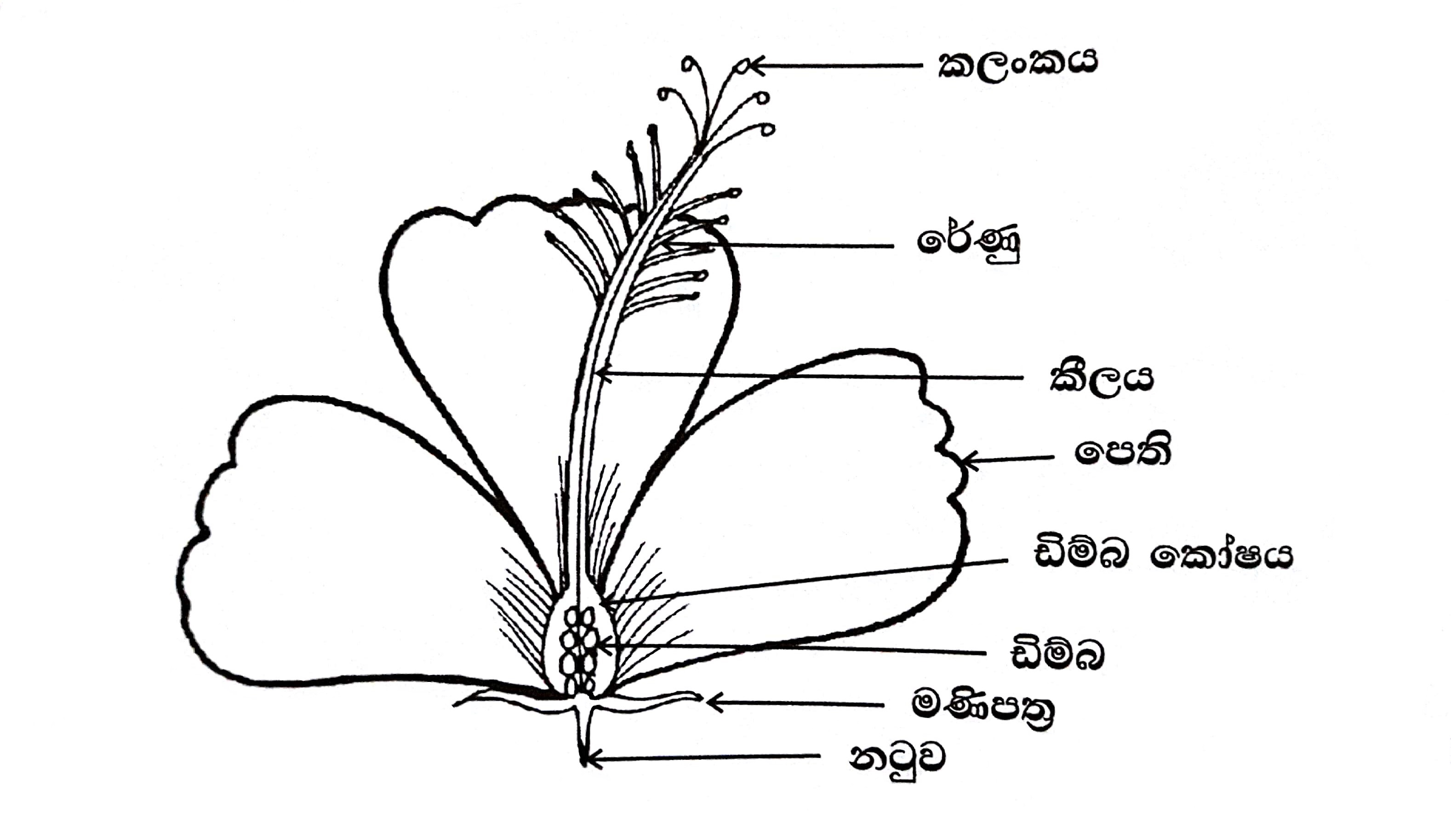 සිංහල: flower parts